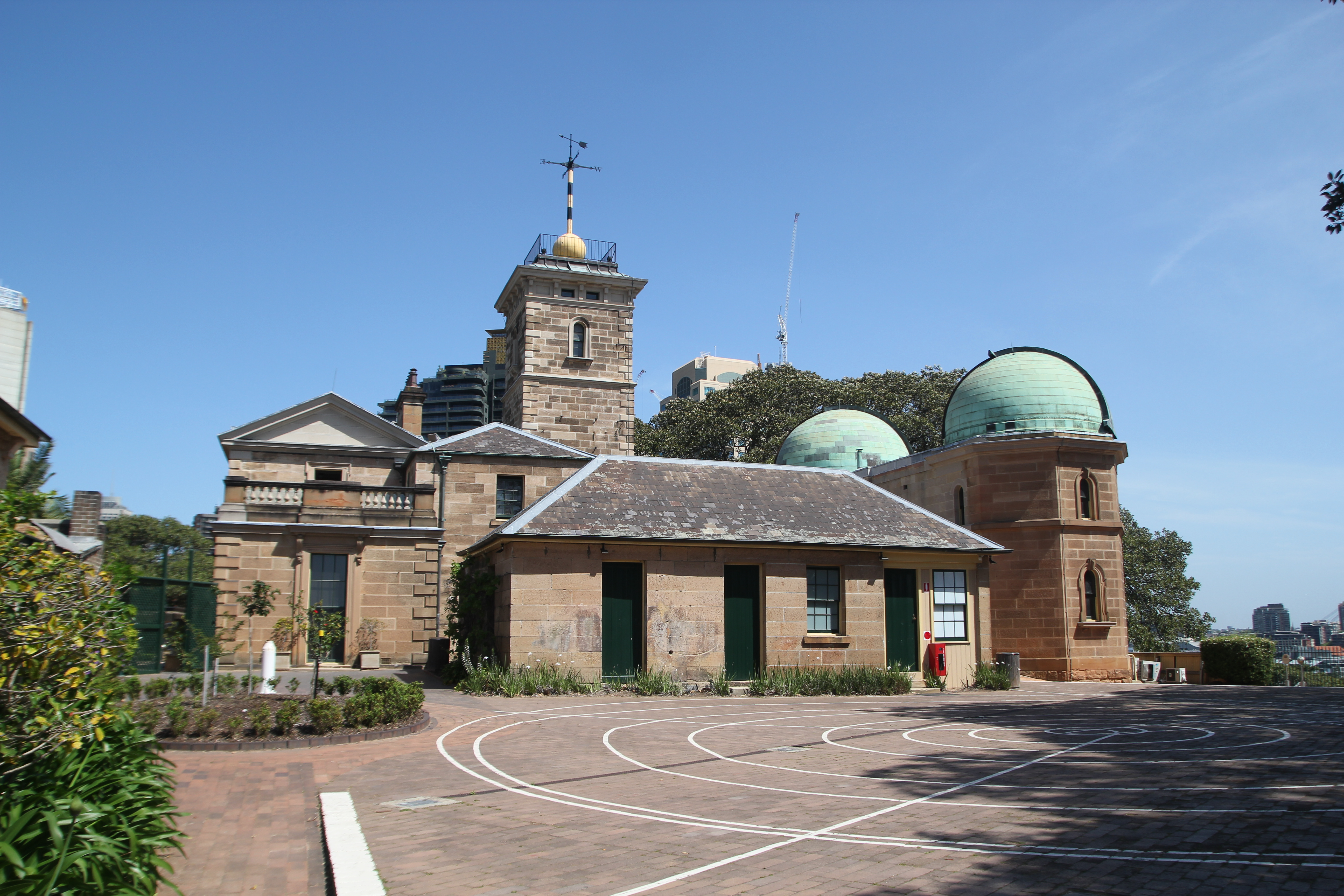 Outside building